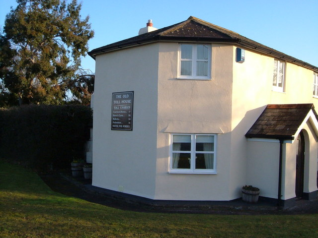 The Old Toll House, New Cross, Kingsteignton. This toll house is at the New Cross roundabout, where the outskirts of the village give way to the clay pits of the Bovey basin, and is on the line of a roman road. View from SW. 7:37 am